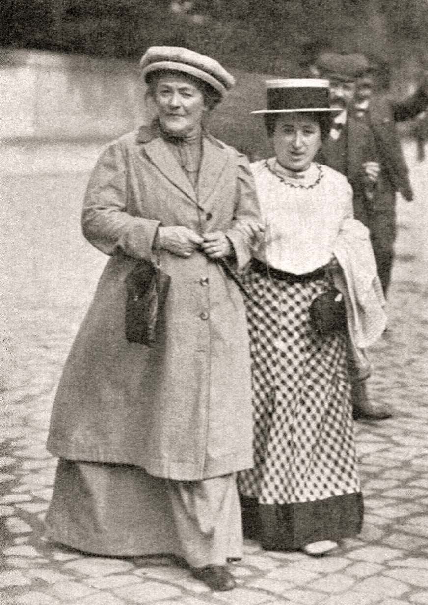 Clara Zetkin (left) & Rosa Luxemburg in their way to the SPD Congress. Magdeburg, 1910